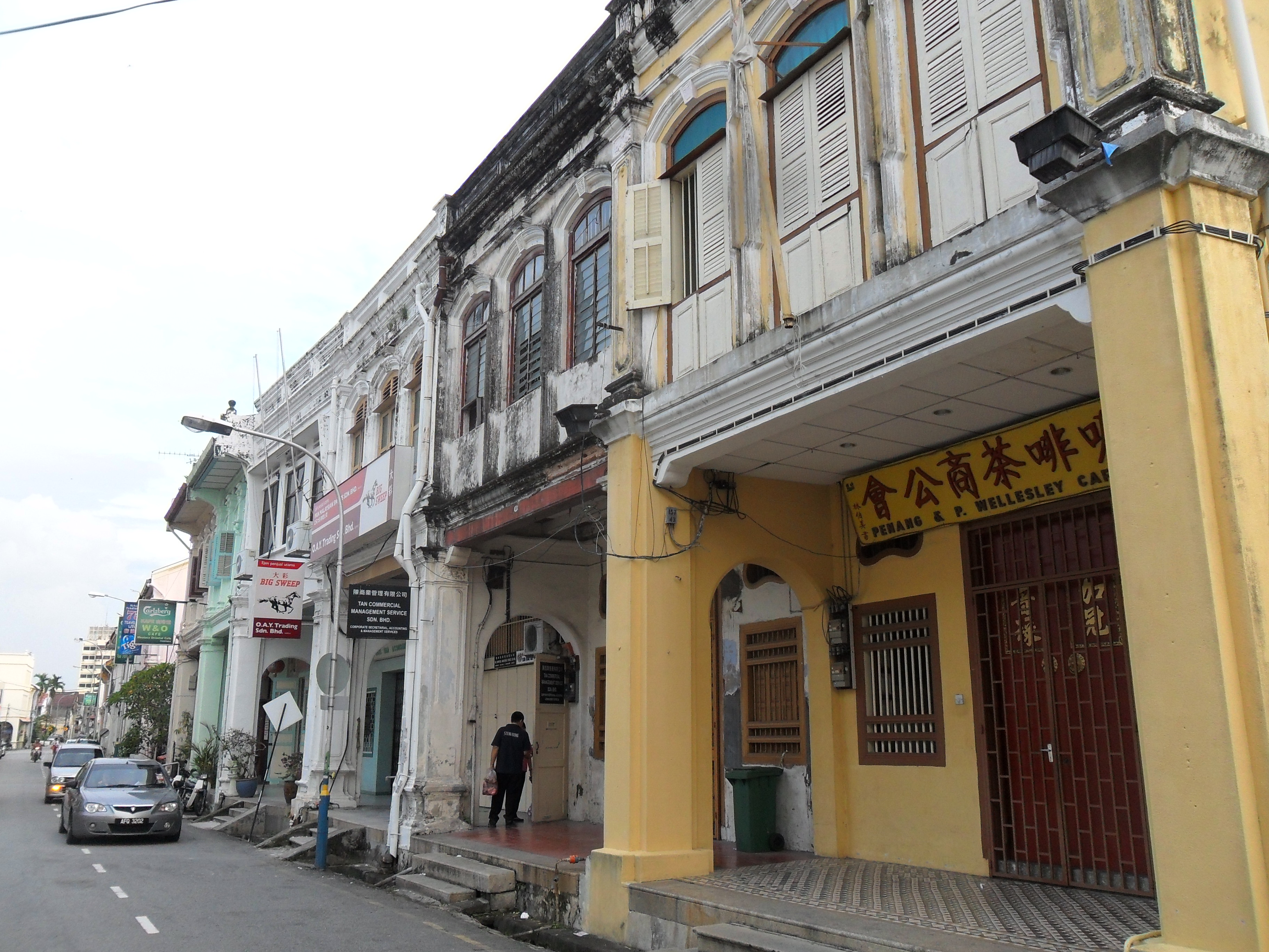 A street in the old town of George Town, Penang.